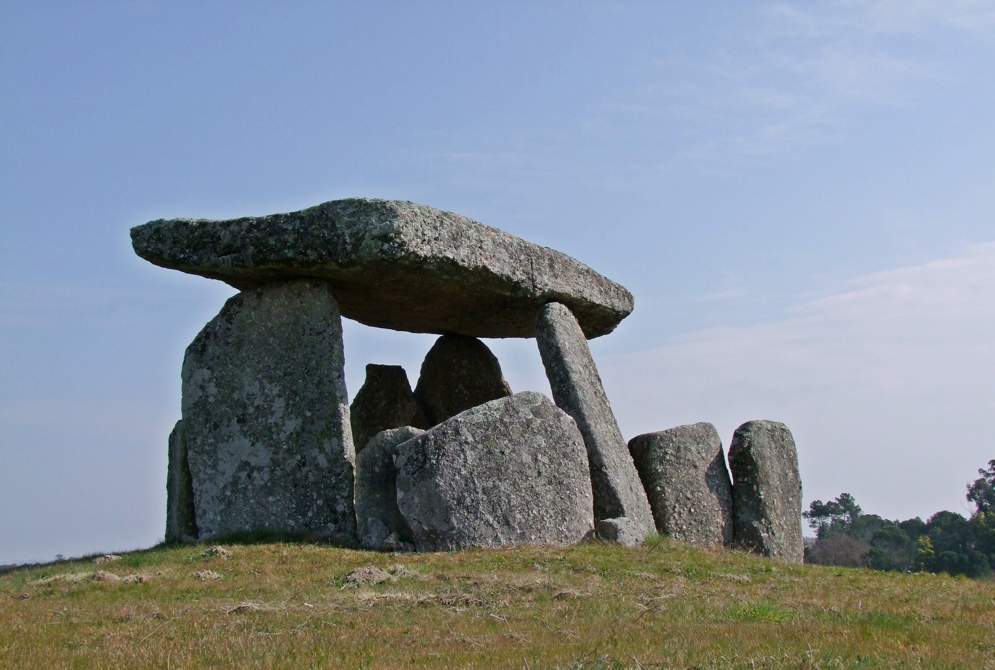 Dolmen South of Rio Torto, Portugal.